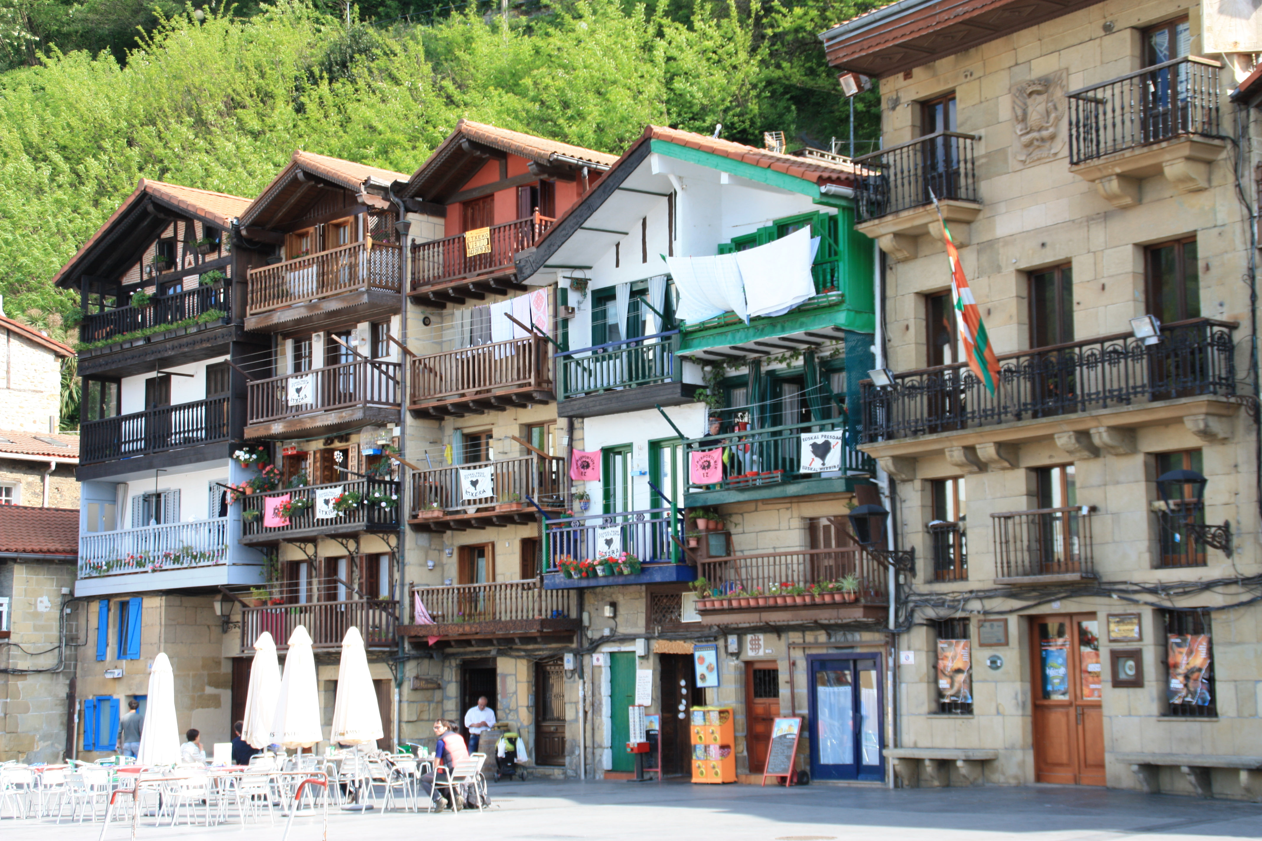 Pasai Donibane, Gipuzkoa, Basque Country